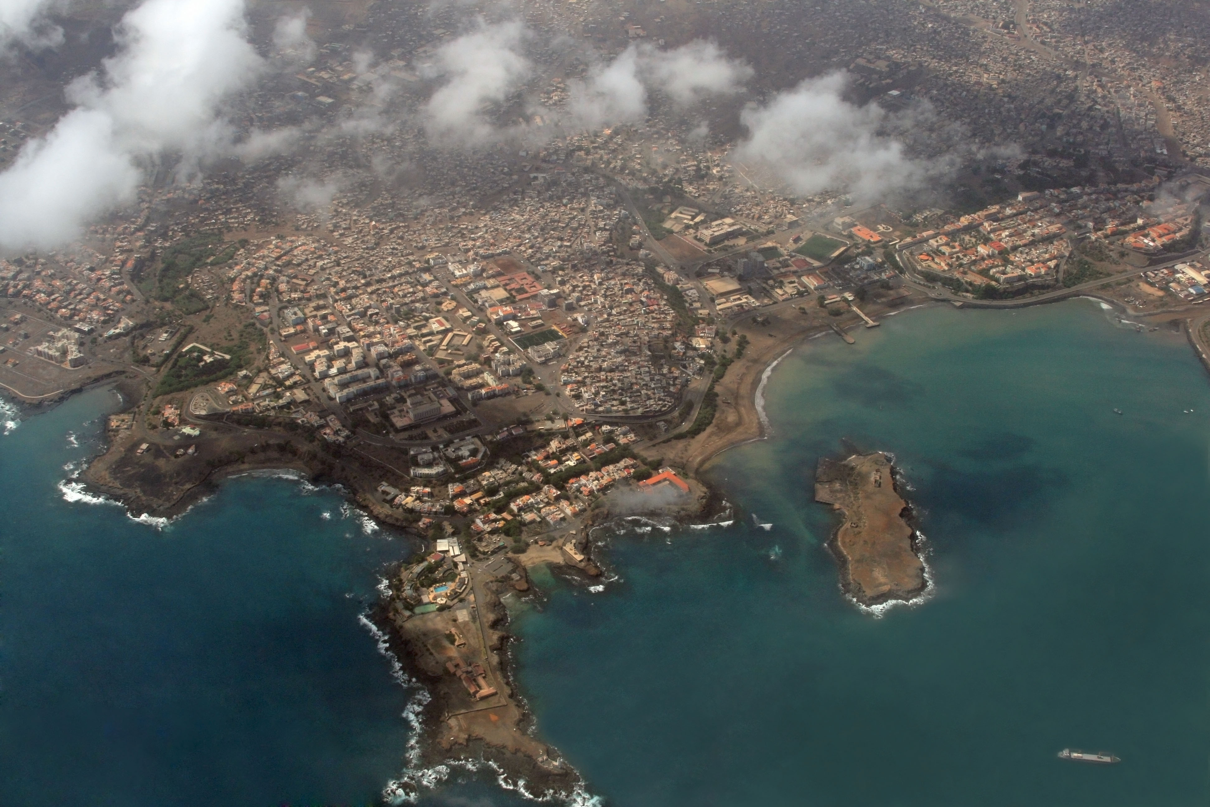 Aerial view of Praia, the capital city of Cape Verde